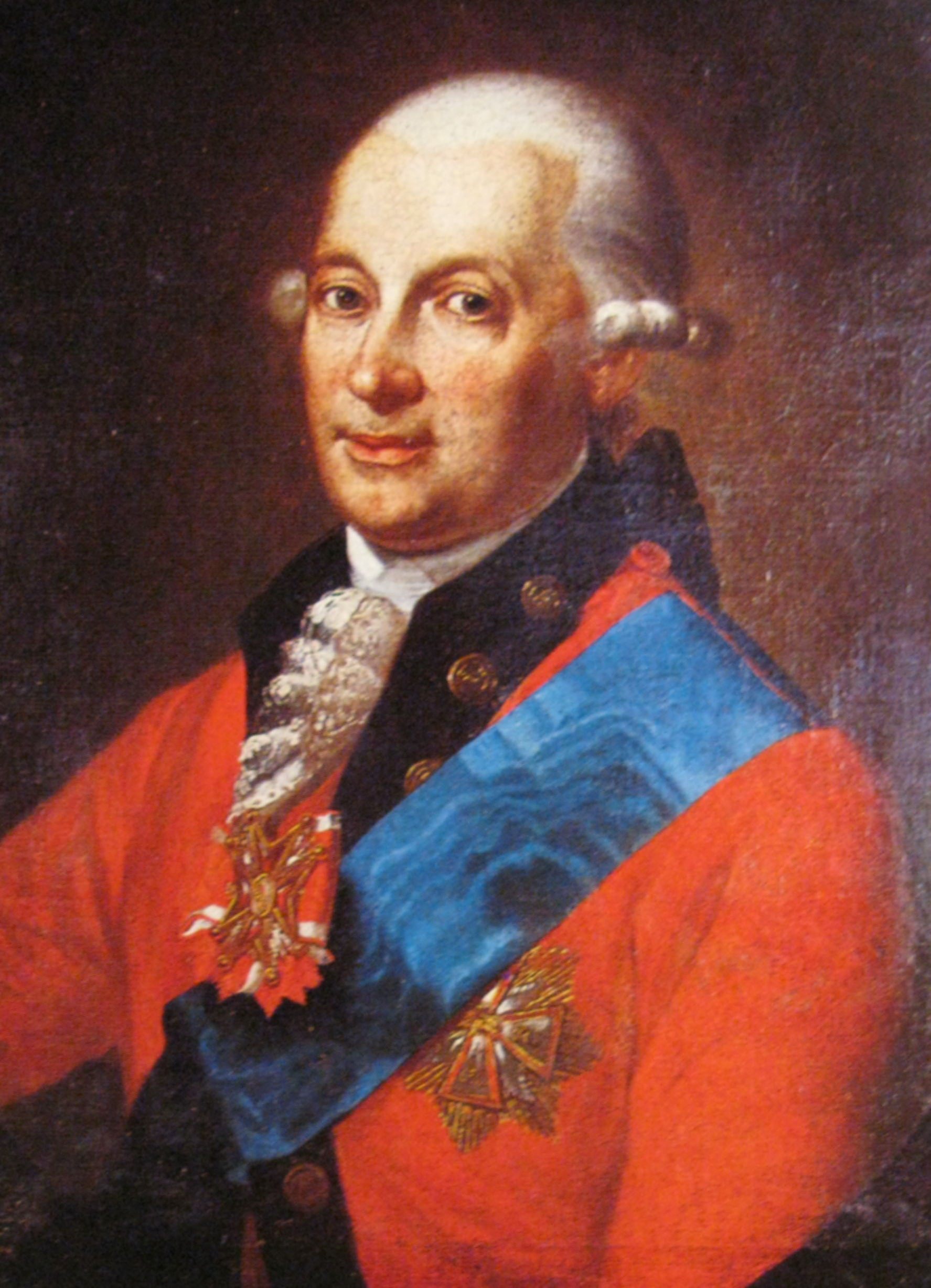 Portrait of Bazyli Walicki (1726-1802)